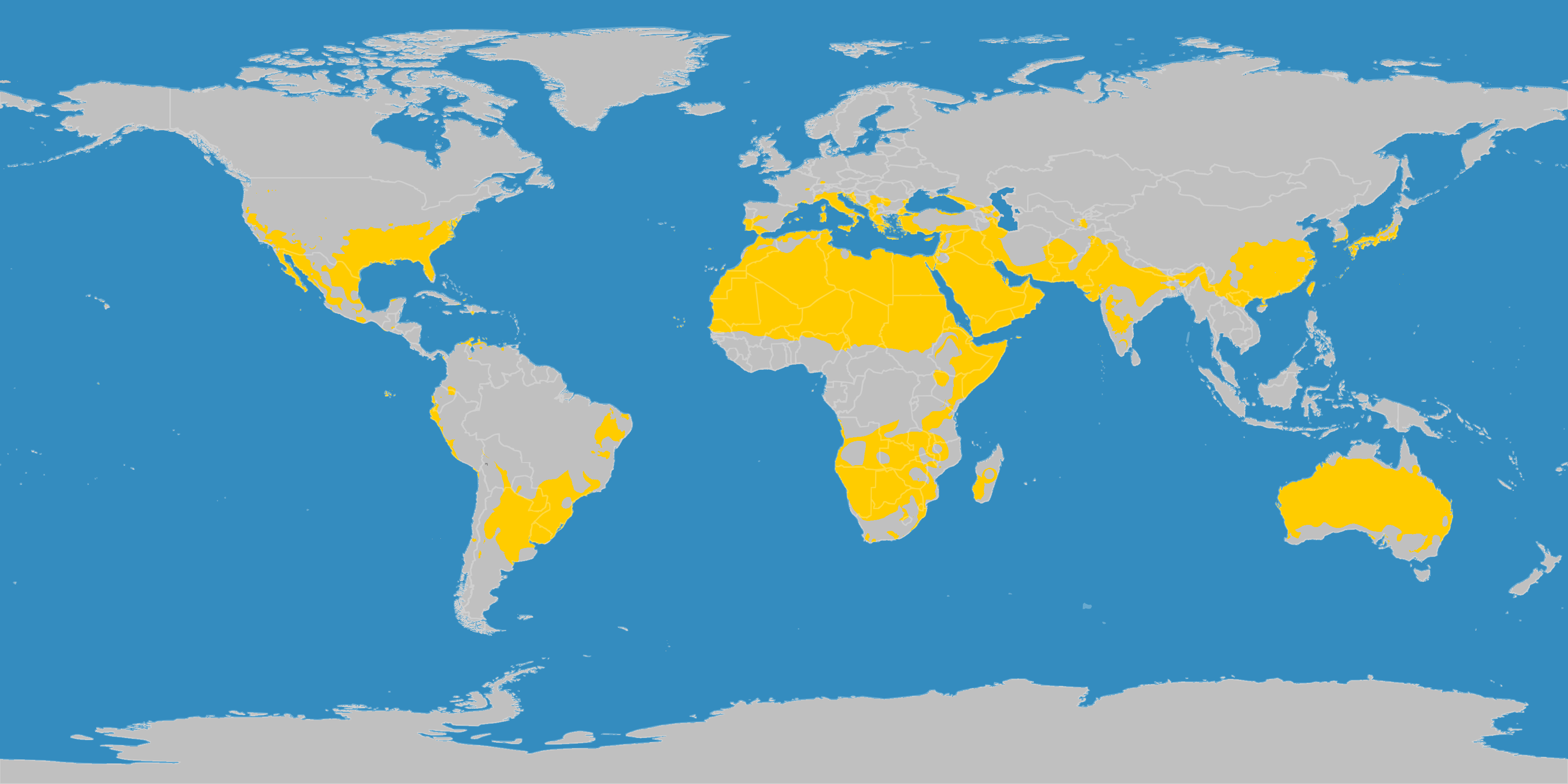 This map shows the Earth zones with a subtropical climate.